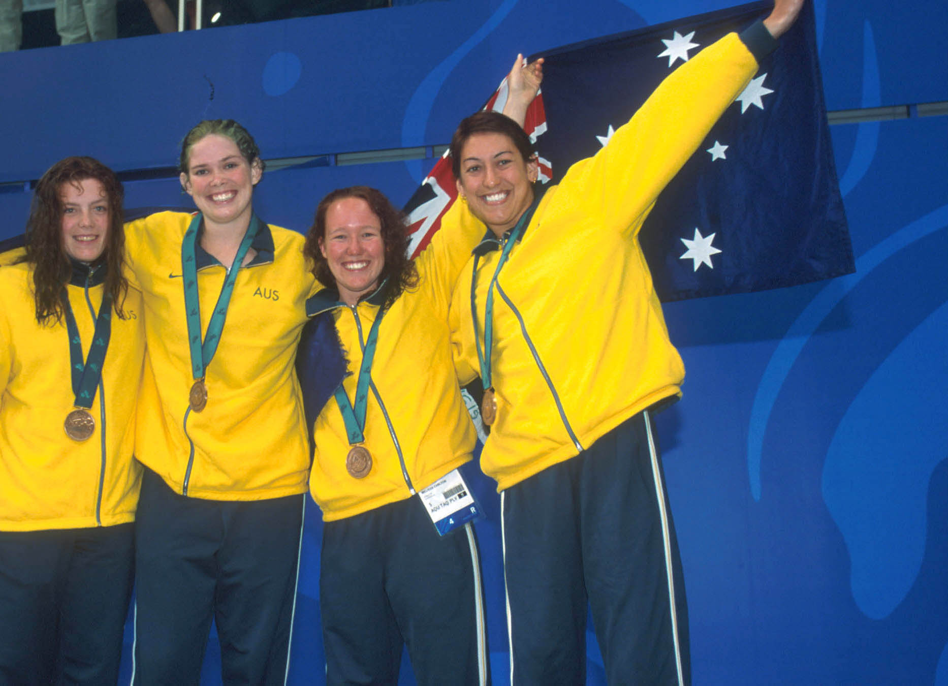 (L-R) Australian swimmers Gemma Dashwood, Amanda Fraser, Melissa Carlton and Priya Coope with their bronze medals that they won as the Australian Women's 4 x 100 m Freestyle Relay 34pts team, 2000 Sydney Paralympic Games. Carlton and Cooper hold up the Australian flag behind them.